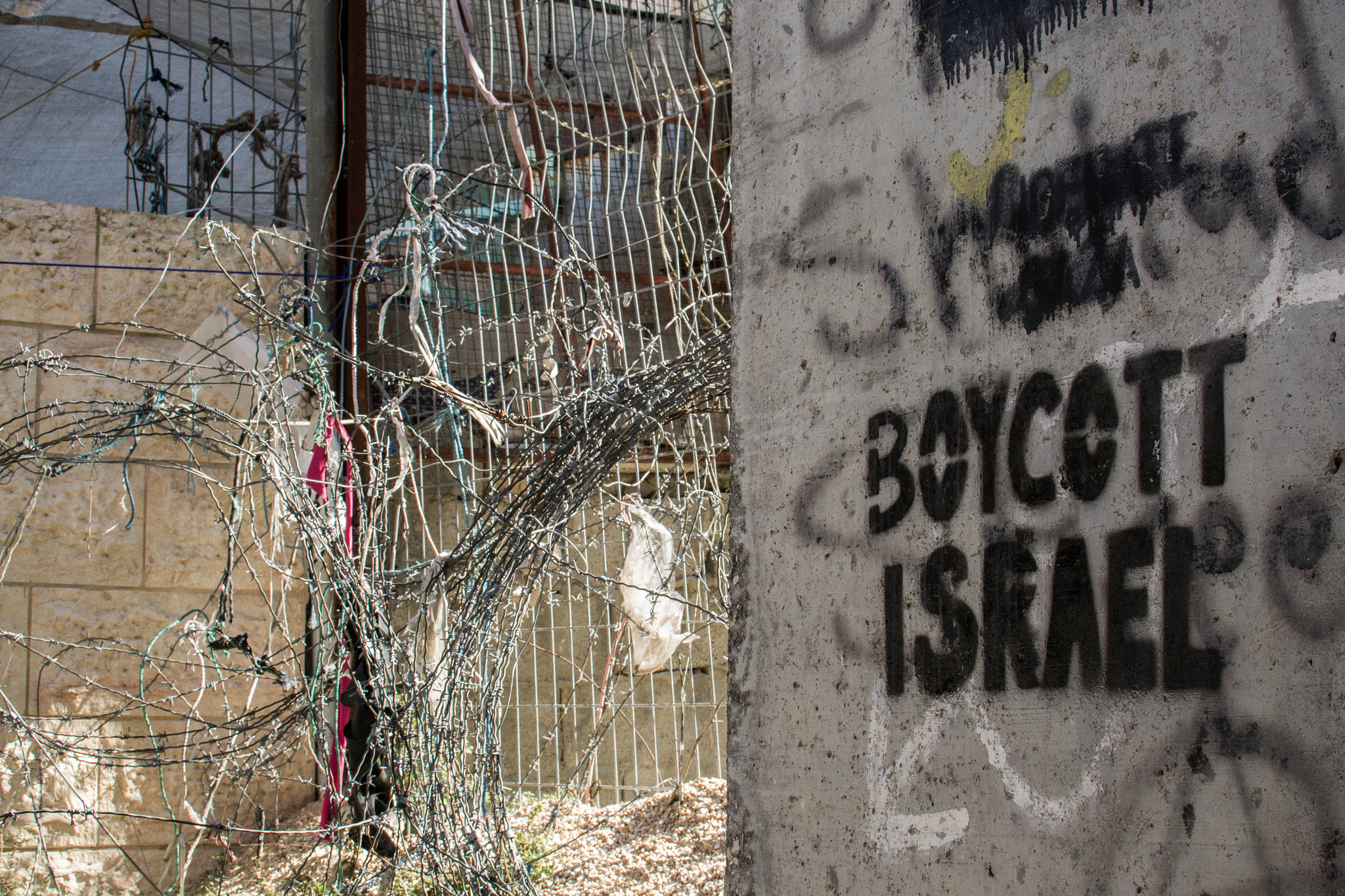 500px provided description: Al Khalil Hebron [#?????? ,#?????? ,#Israel ,#Hebron ,#Palestine ,#Occupation ,#BDS ,#Apartheid ,#Al Khalil ,#Boycott Israel]